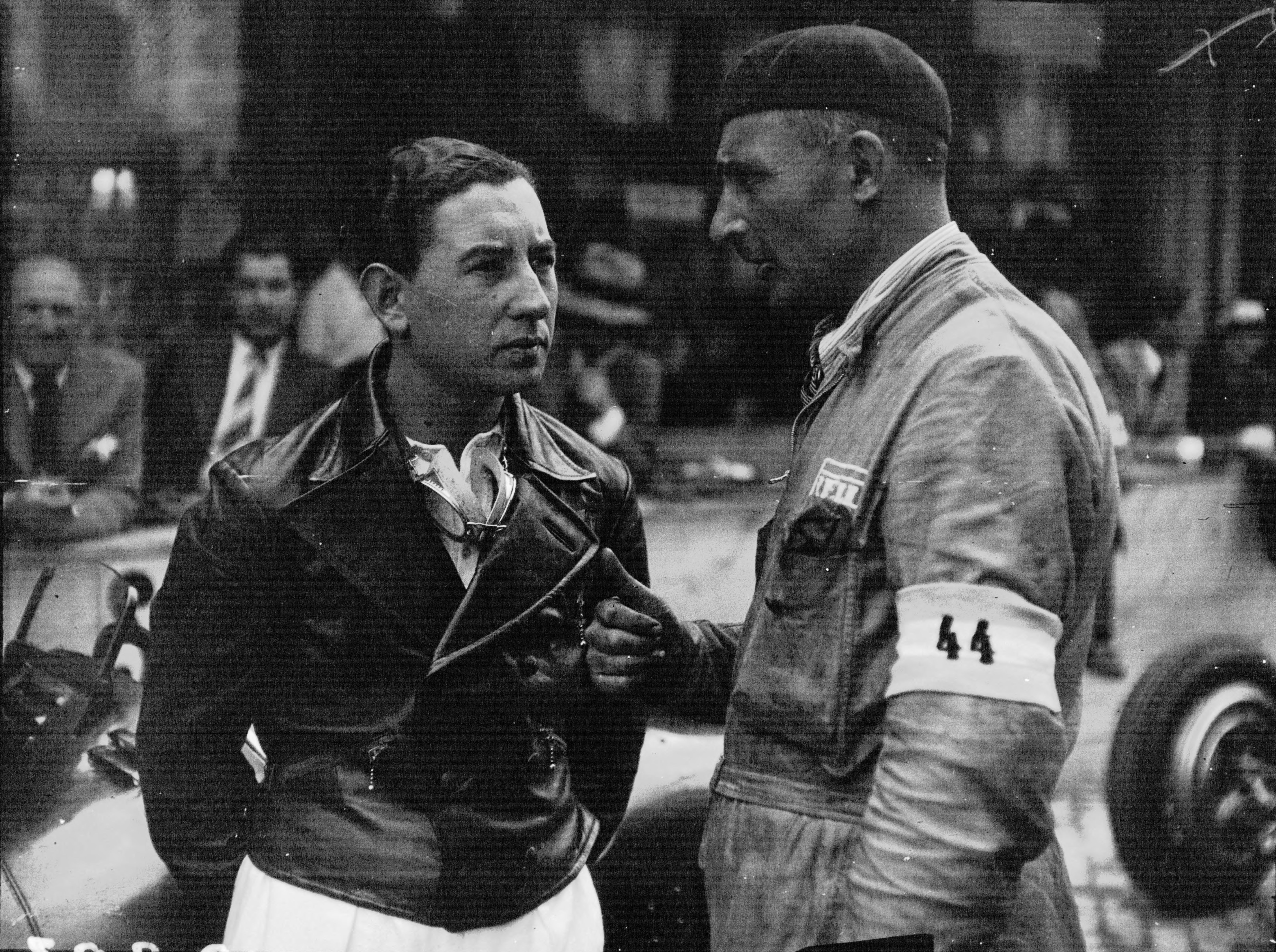 Guy Moll at the 1934 Grand Prix automobile de Montreux